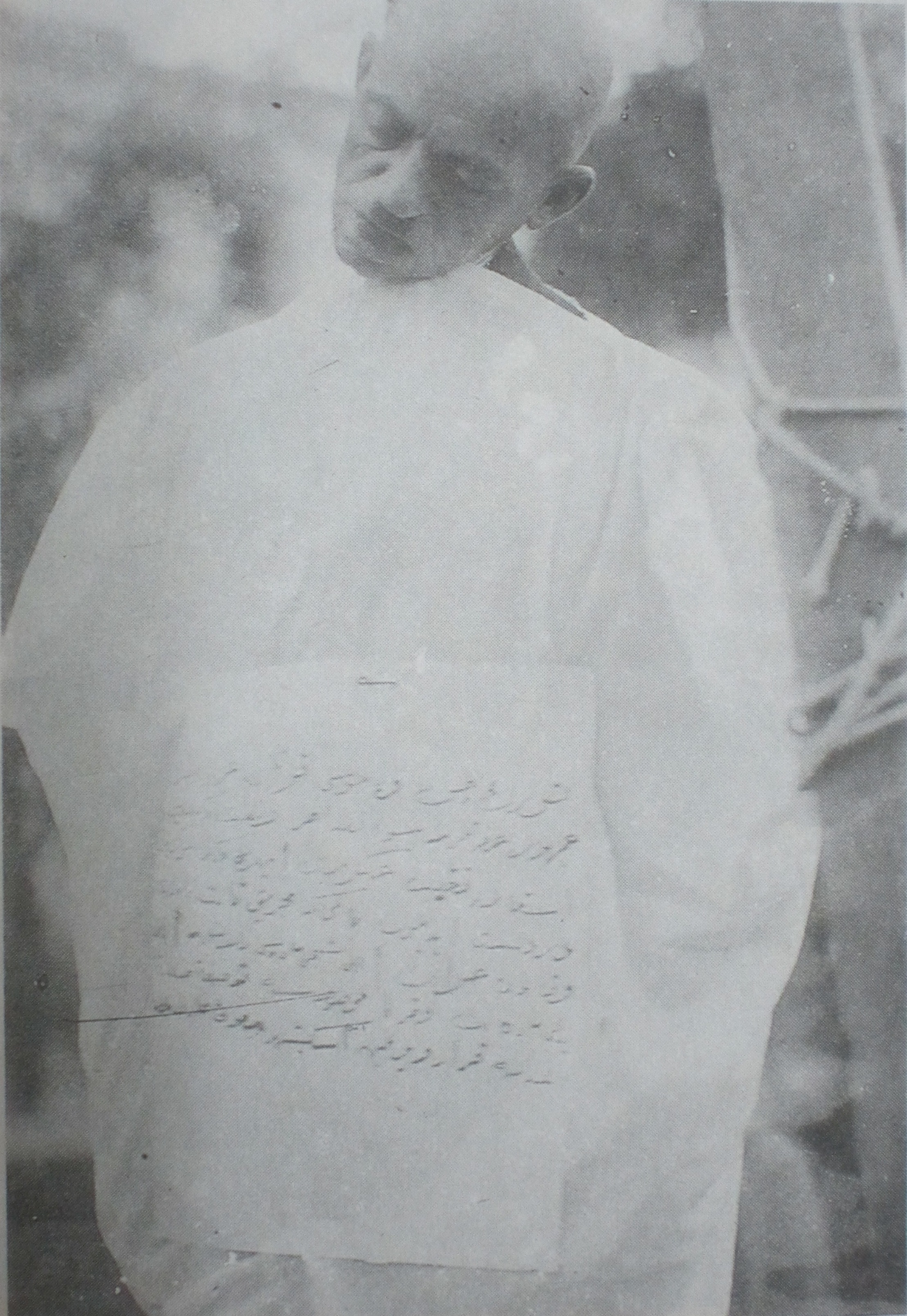 Mehmed Arif Bey hung on the gallows treeTürkçe: Eskişehir Mebusu "Ayıcı" Arif Bey idam sehpasında